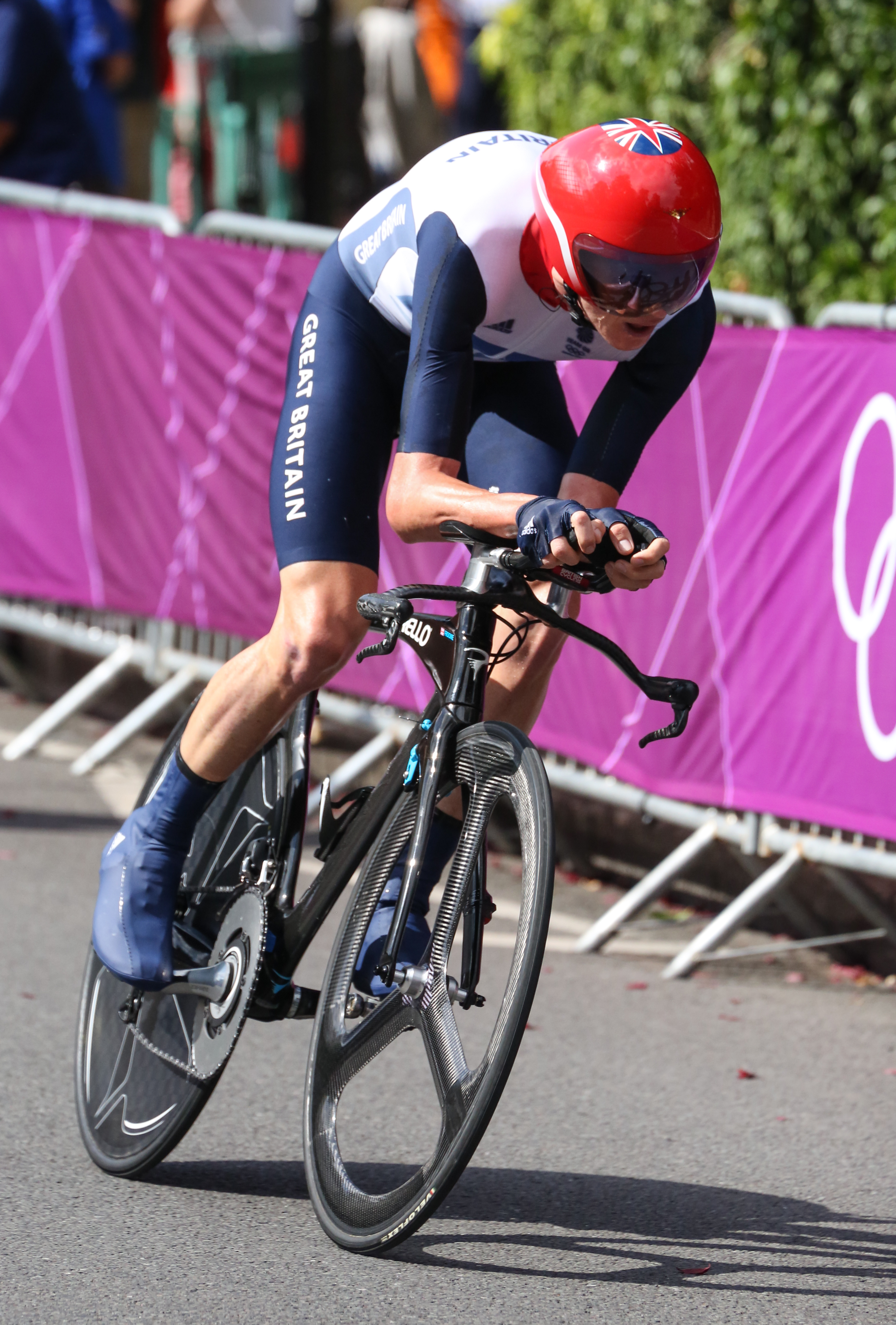 Chris Froome competing in the London 2012 Men's Olympic Time Trial.